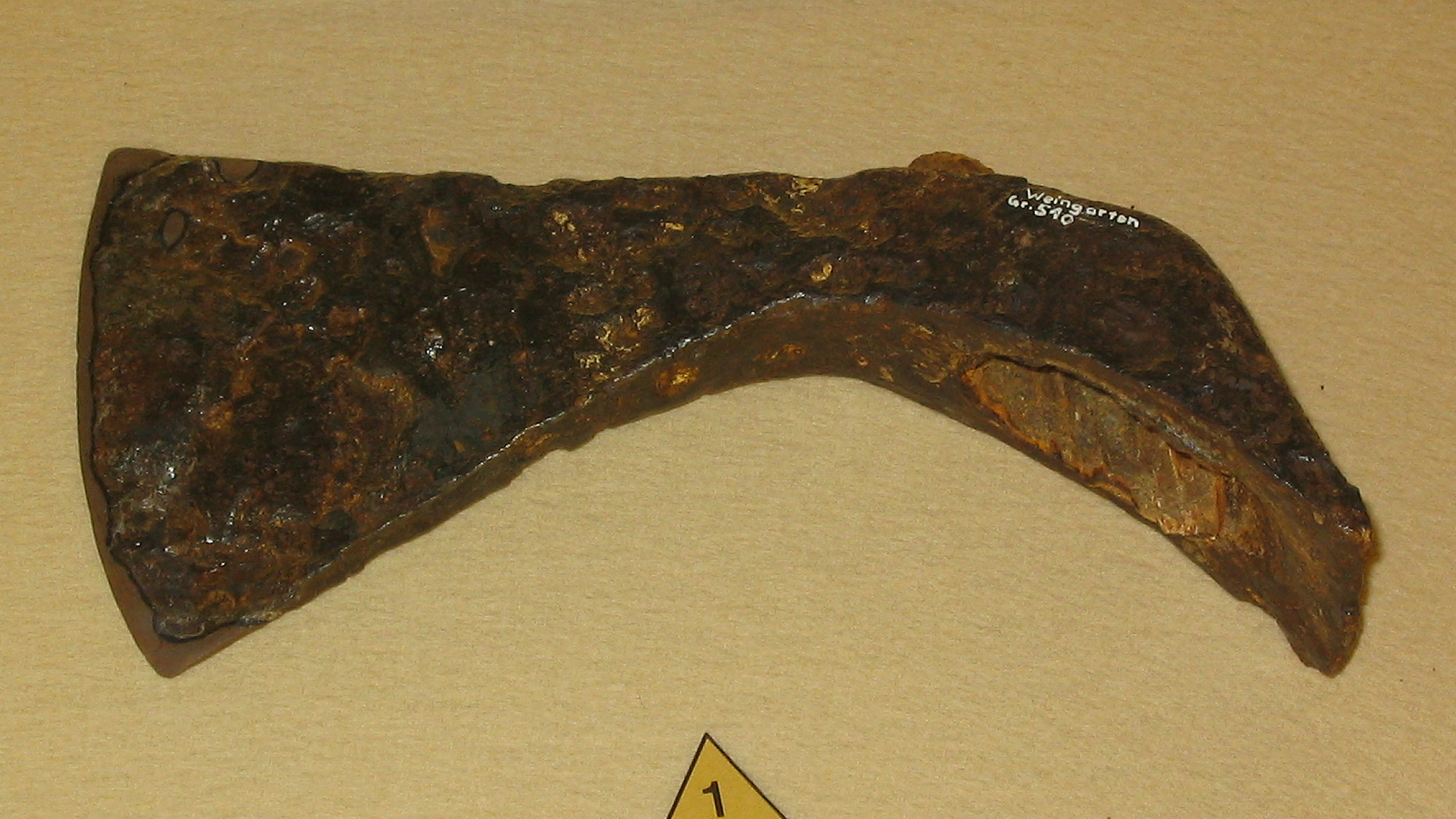 Blade of a Francisca found at the Almannic graveyard of Weingarten (Kr. Ravensburg), Germany. Dating to 6th century A.D.